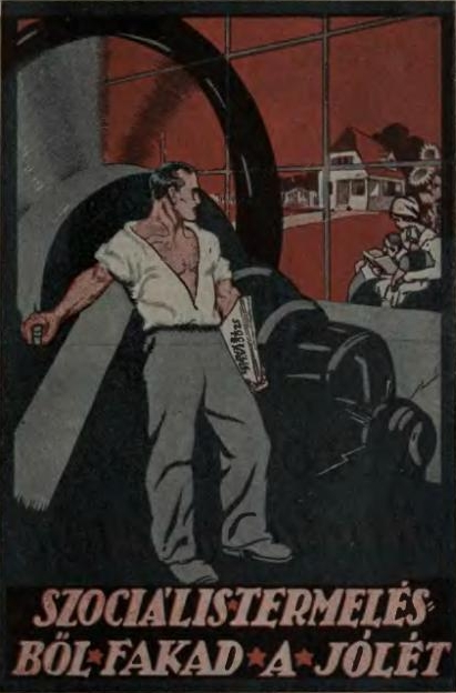 Communist propaganda poster, Hungary, 1919. "It is the socialist production that ensures welfare"